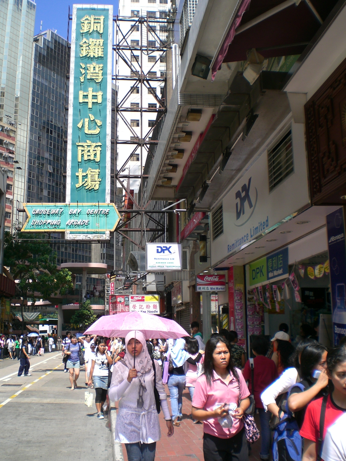 Sugar Street, 糖街 is a street located in Causeway Bay, Hong Kong. Author= DaviSements